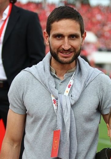 Aleksandar Blagov Tunchev (born 10 July 1981 in Pazardzhik) is a Bulgarian former footballer who played as a defender. He is currently assistant coach of Lokomotiv Plovdiv.